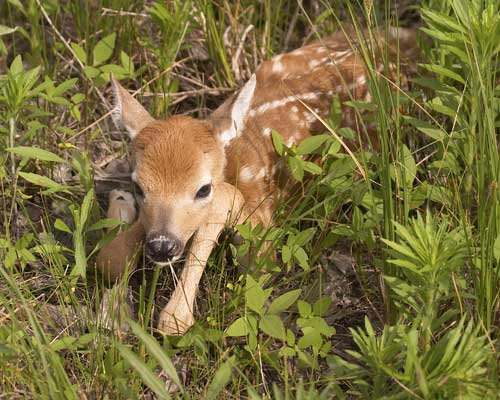 Newborn fawn. Taken at Quivira National Wildlife Refuge.